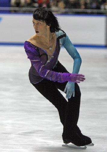 NHK Trophy 2008. Johnny Weir